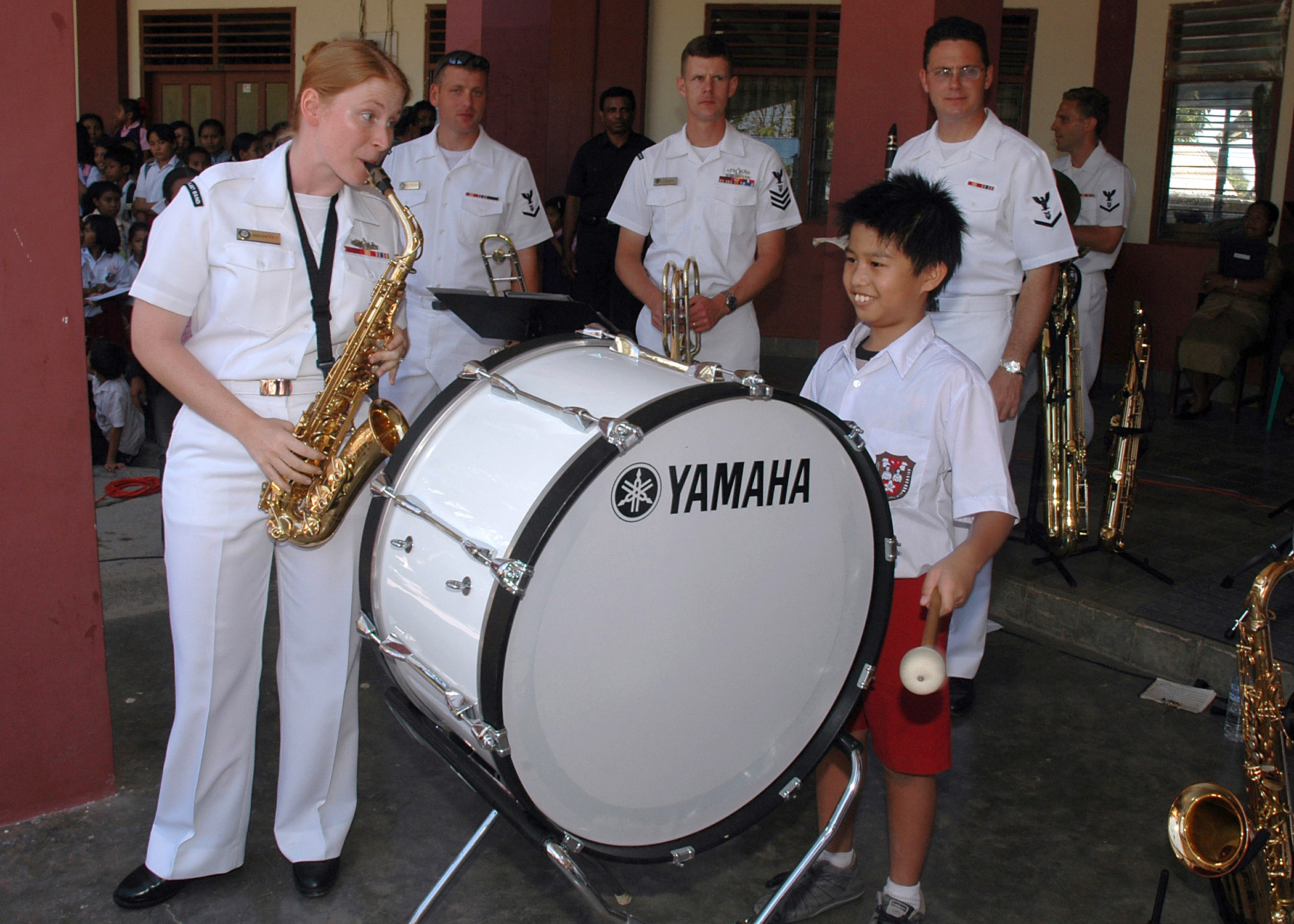 Kupang, Indonesia (Aug. 23, 2006) – A local student plays the bass drum alongside Navy Musician 2nd Class Kerry Mahaffey of Wilmington, W.V., from the U.S. Navy Showband embarked with the Medical Treatment Facility aboard the Military Sealift Command (MSC) hospital ship USNS Mercy (T-AH 19), during a performance at a local Catholic school. Mercy is anchored off the coast to provide humanitarian, medical and civic assistance to Kupang residents. Mercy is in the fourth month of her five-month humanitarian and civic assistance deployment to South and Southeast Asia where her crew has already treated thousands of people. U.S. Navy photo by Mass Communication Specialist 1st Class Michael R. McCormick (RELEASED)